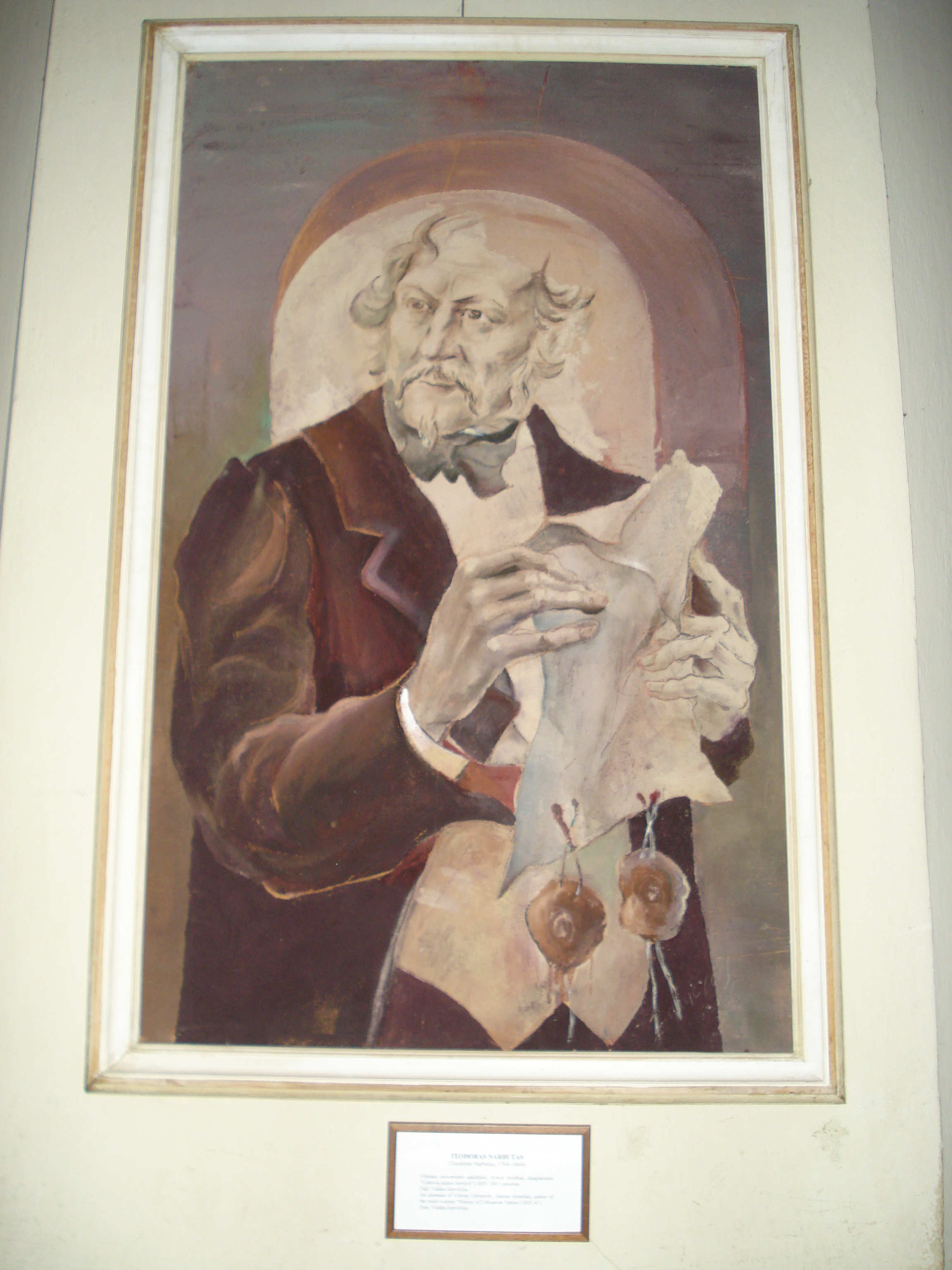 Portarit of Teodor Narbutt, Polish historian & writer, Church of St. Johns, Vilno (Vilnius)